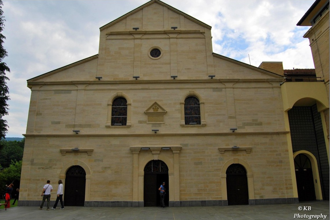 Franciscan monastery Rama-Šćit